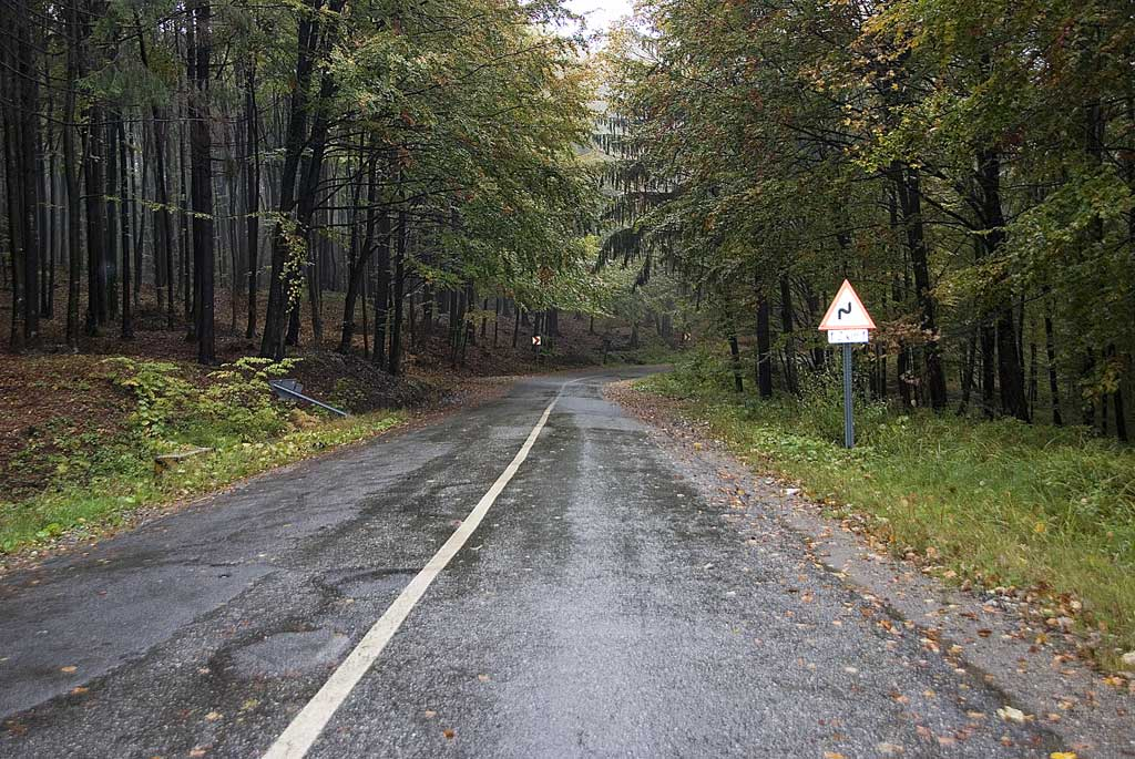 Huta Pass in Romania